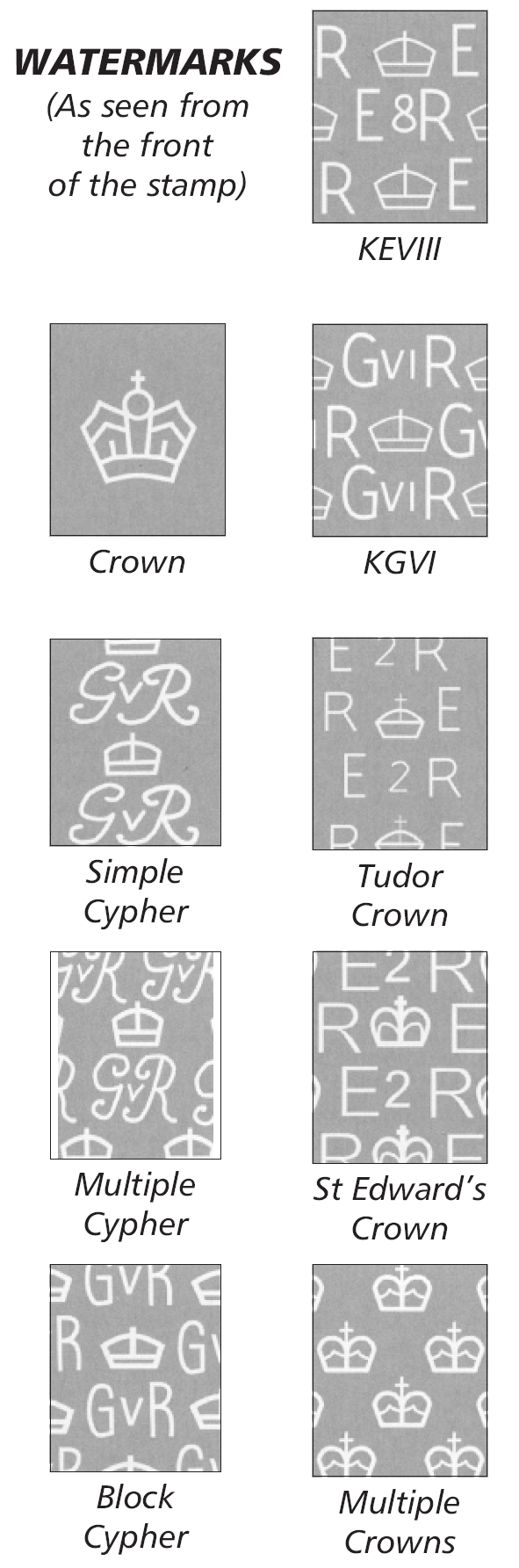 Watermarks on British stamps up to about the 1950s.